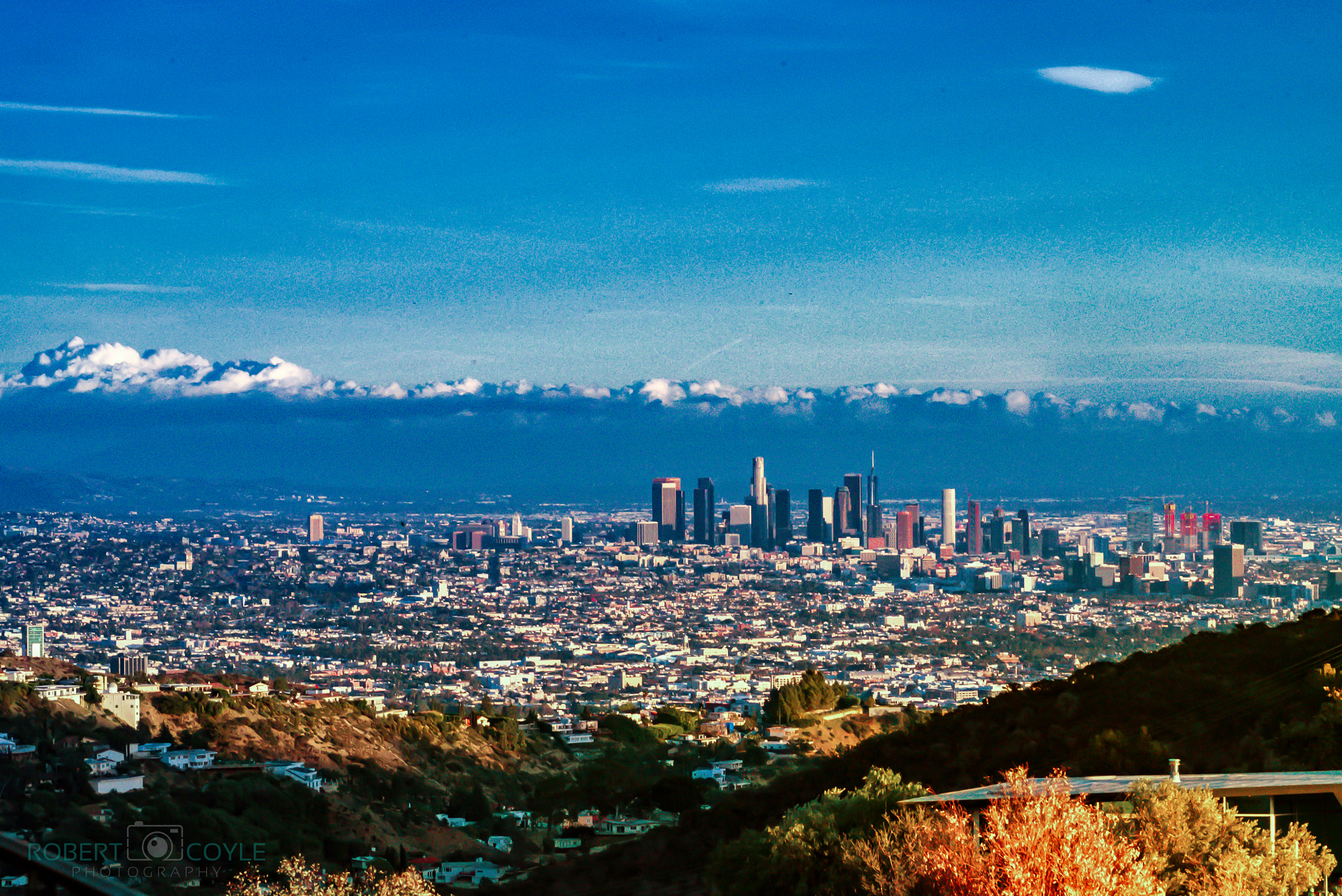 500px provided description: From The Hills [#sky ,#landscape ,#clouds ,#panorama ,#mountain ,#cloud ,#hill ,#los angeles ,#scenics ,#photographer ,#hillside ,#clear sky ,#mountain range ,#beverly hills ,#horizon over land ,#townscape ,#the hills ,#photooftheday ,#sonya7s]